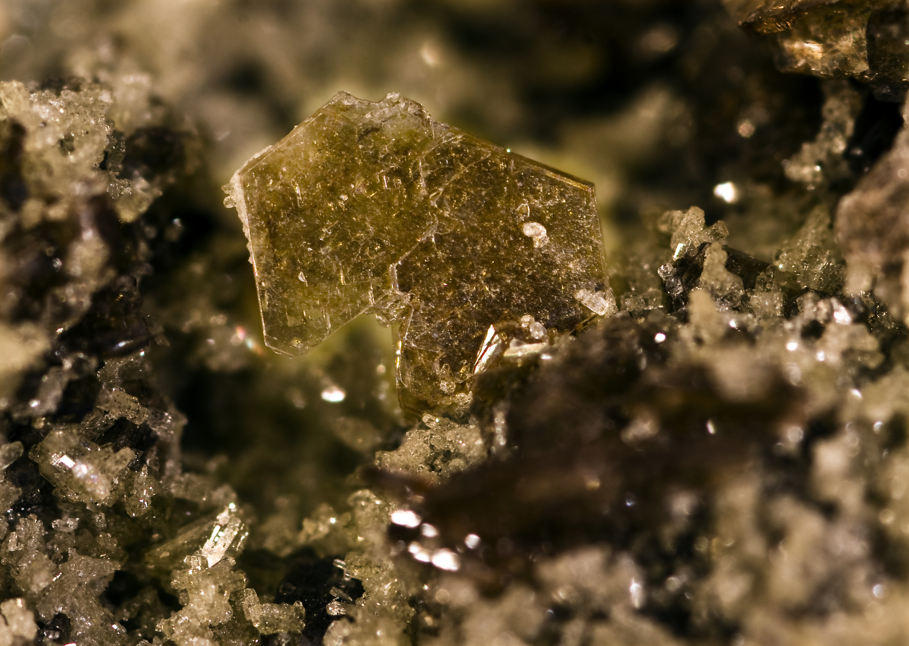 Phlogopite Locality : San Vito quarry, San Vito, Ercolano, Monte Somma, Somma-Vesuvius Complex, Naples Province, Campania, Italy Size :(View1cm)